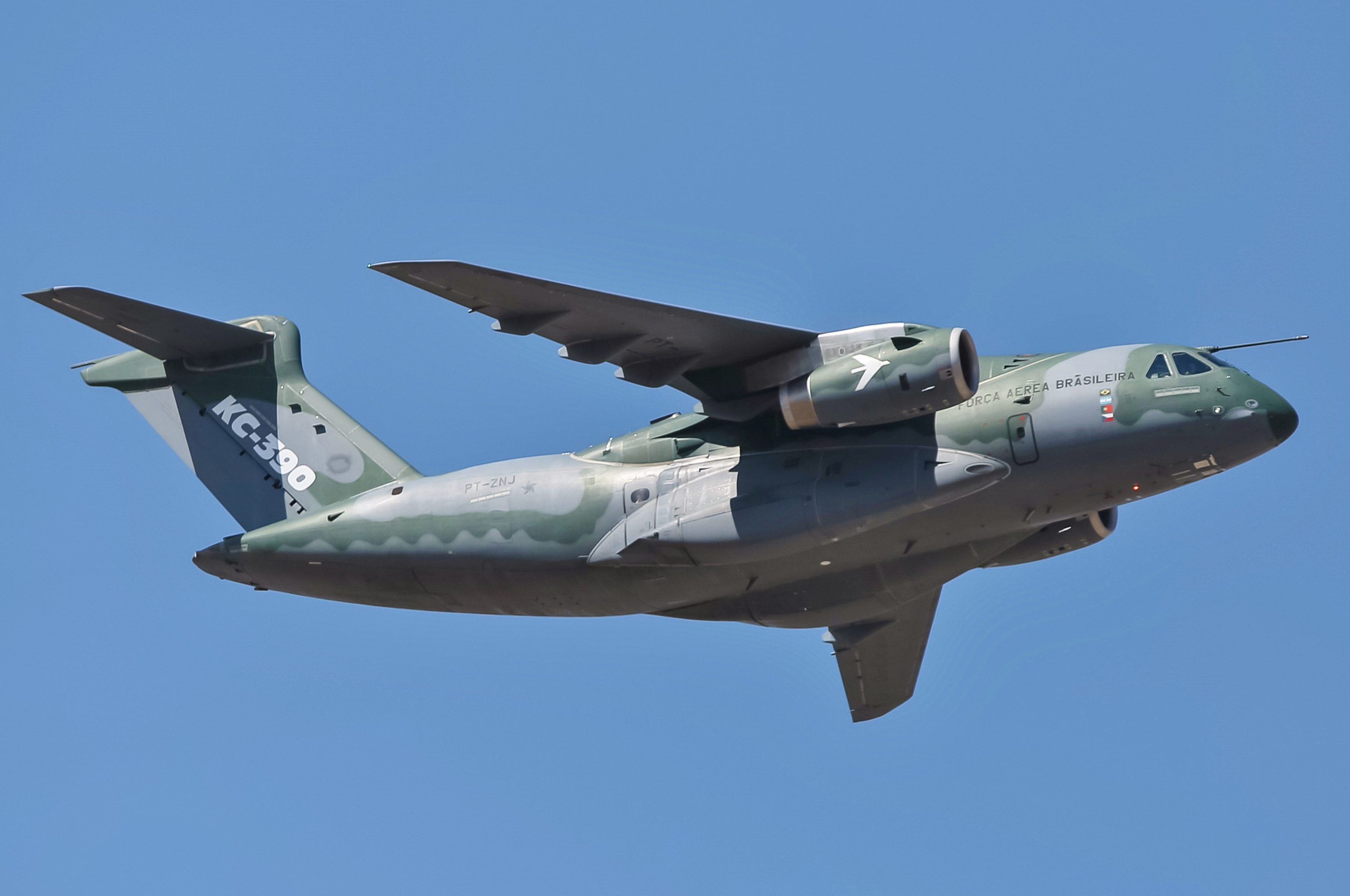 Embraer KC-390, PT-ZNJ - Desfile Cívico 2018